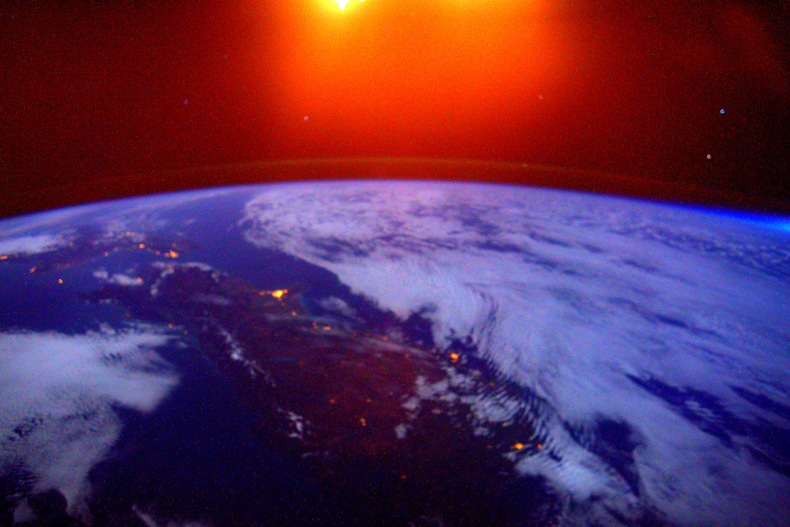 Earth observation taken during a night pass by the Expedition 46 crew aboard the International Space Station (ISS). Kelly posted this photo to Twitter on Dec. 25 with the caption, "Day 273 Rare sunrise glow over #NewZealand on my 3rd #Christmas in space #GoodNight frm @space_station! #YearInSpace"